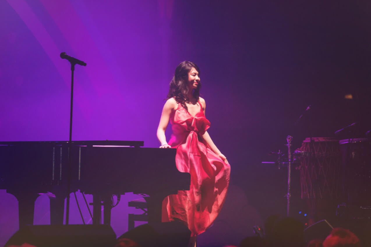 Belle Chen performs at Roundhouse, London in 2015